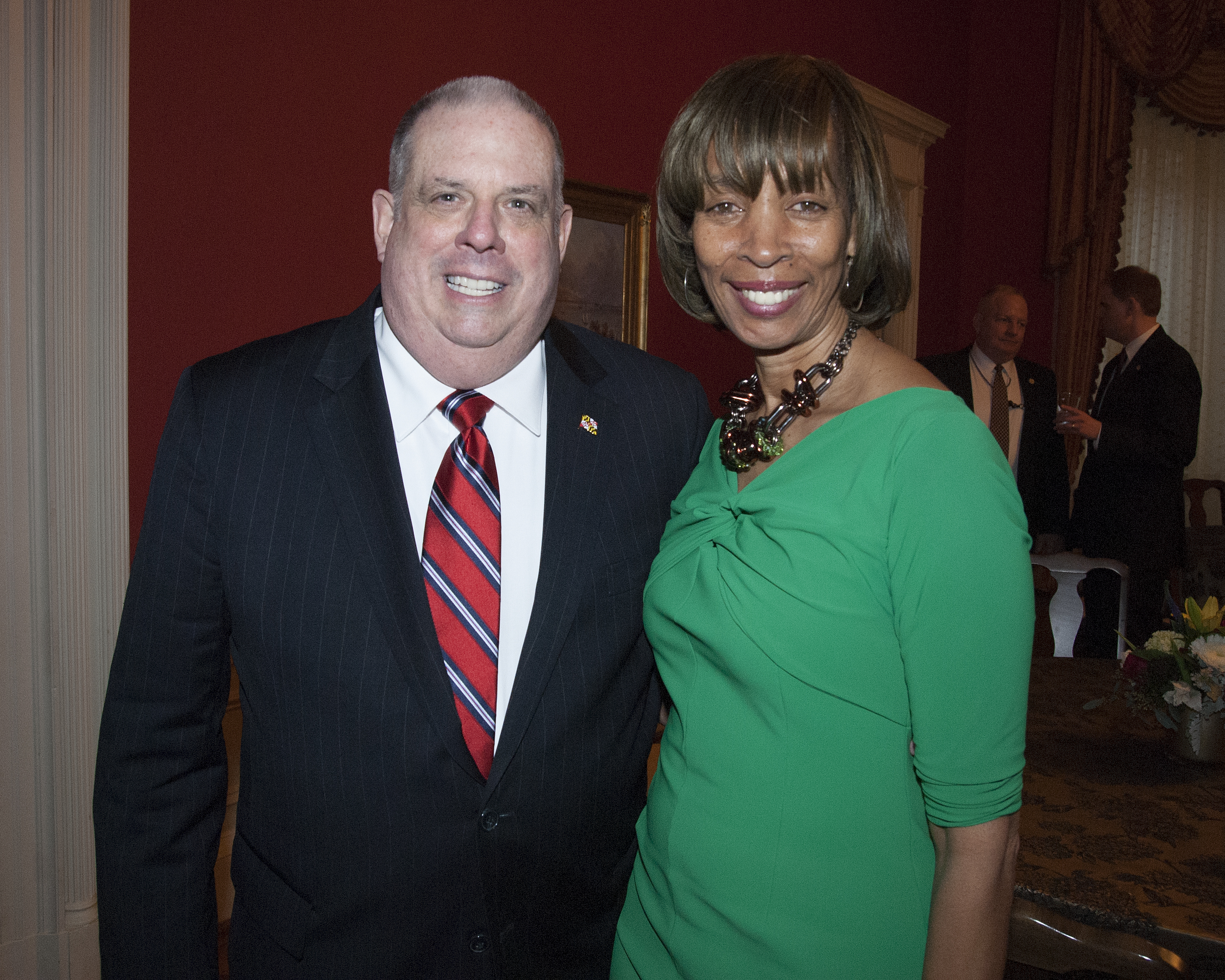 Governor's Reception For State Of The State Guests by Staff at Government House, 101 State Circle, Annapolis Maryland 21401